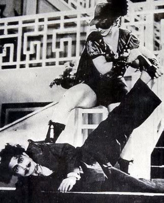 Fearless Nadia in the Hindi film Hunterwali (1935).